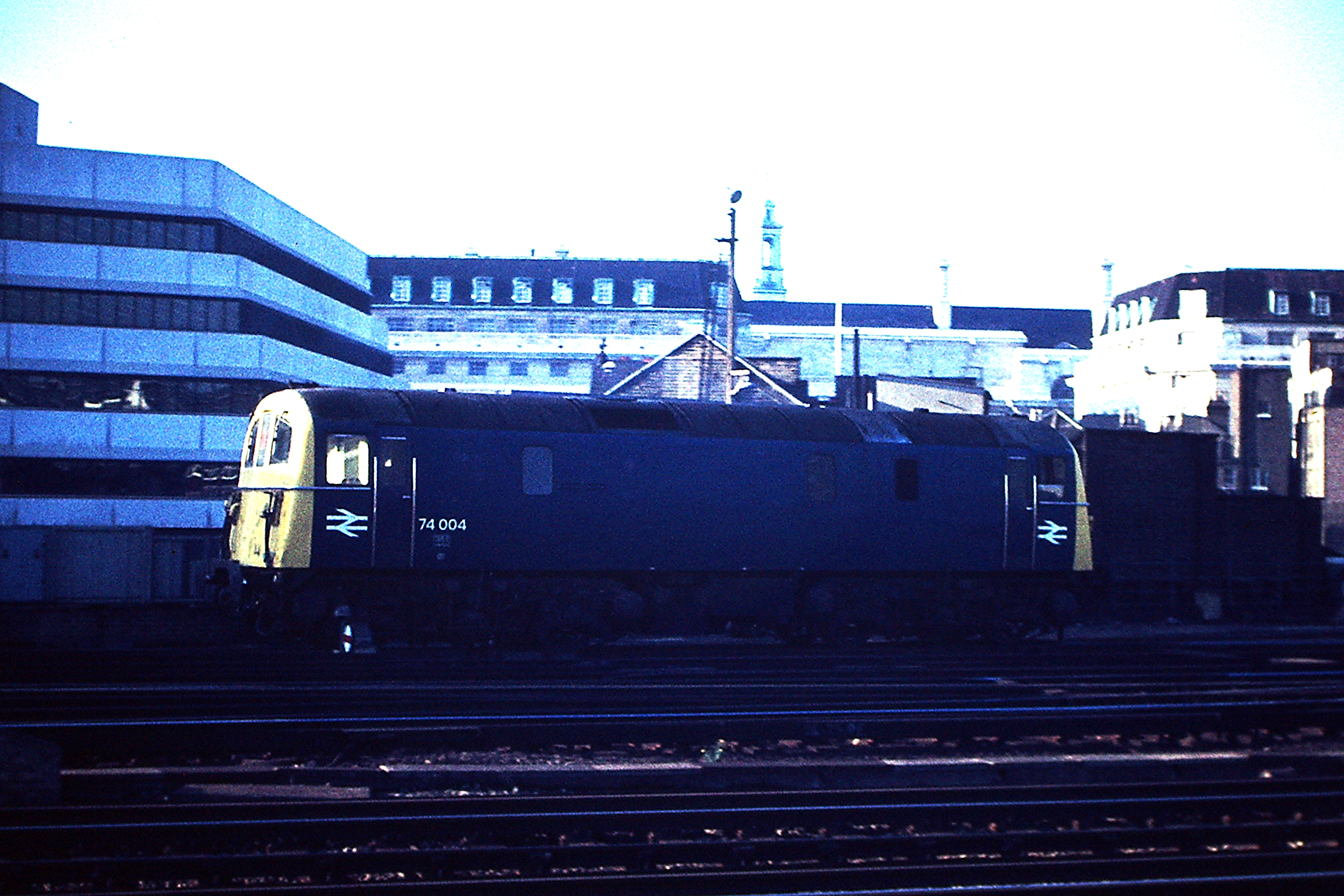 BR(SR) Class HB (later Class 74), 2550hp 750v dc 3rd rail & 650 hp diesel electric Bo-Bo No.74 004 (ex-No.E6104) in BR Rail Blue livery at Waterloo, 12/75. Scanned slide taken with a Kowa SET.